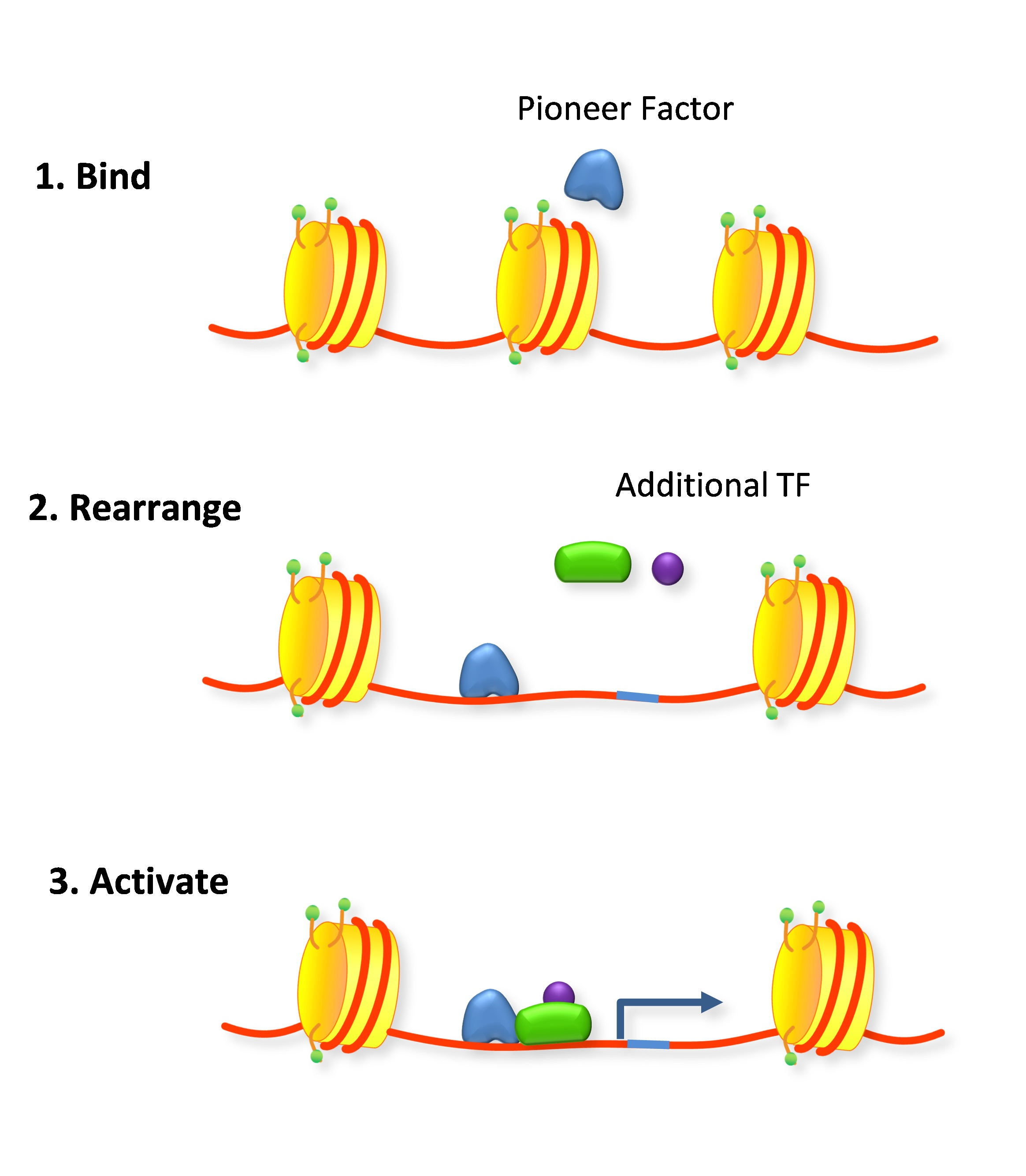 Pioneer Factor opens the nucleosome in the chromatin.